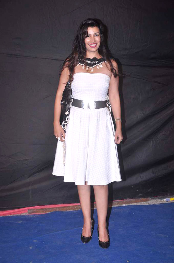 colors indian telly awards